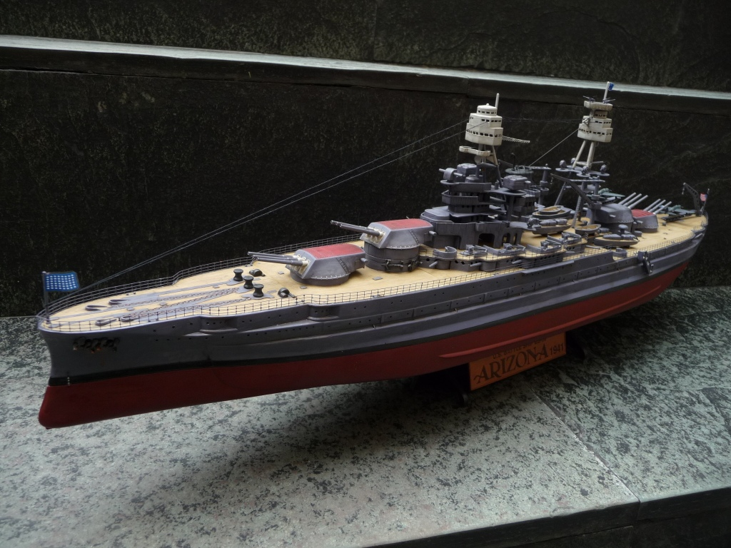 USS Arizona